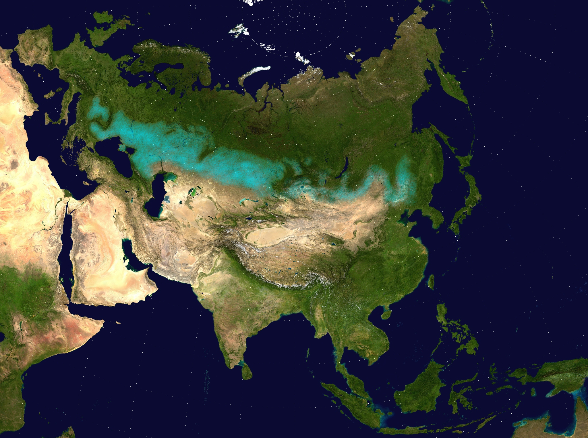 Approximate extent of the Eurasian Steppe grasslands ecoregion, and Eurasia cultural region. In northern Eastern and Central Asia, and westward into Eastern Europe, in areas of Russia, Ukraine, Moldavia, and Hungary. Based on file Two-point-equidistant-asia, see below.